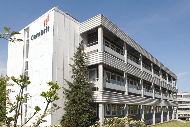 Picture of Cembrit Domicil